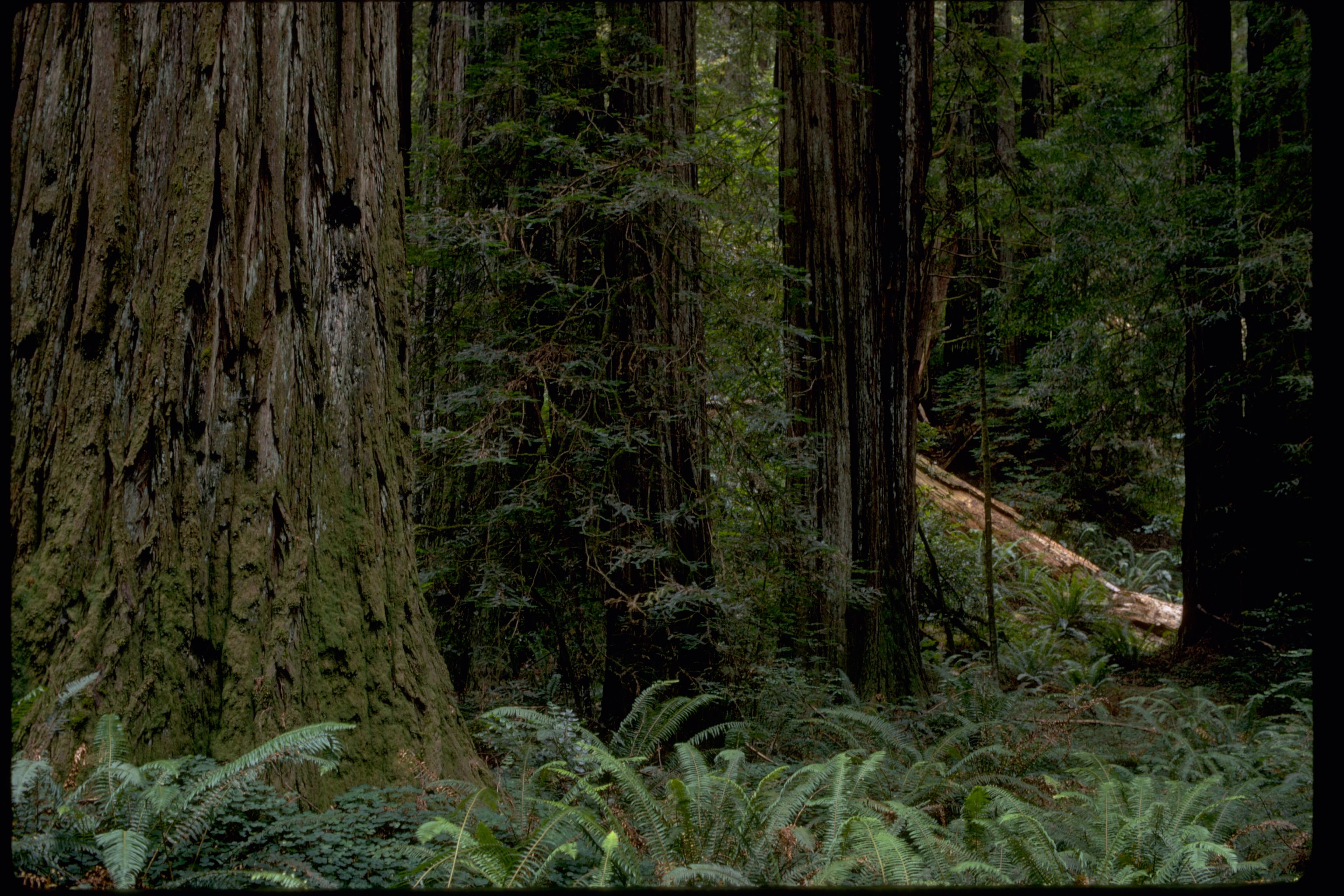 Location Redwood National Park Description Coastal redwood forests with virgin groves of ancient trees, including the world's tallest, thrive in the foggy and temperate climate. The park includes 40 miles of scenic Pacific coastline.